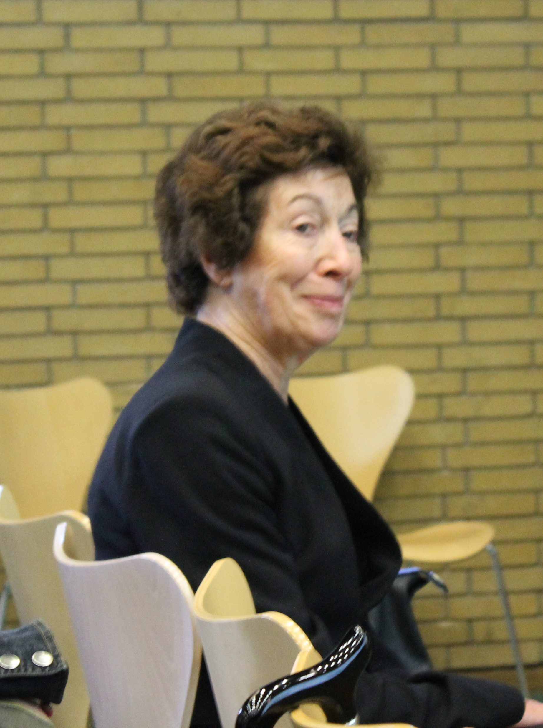 Editor and food writer Jill Norman at the Oxford Symposium on Food and Cookery, 2012.